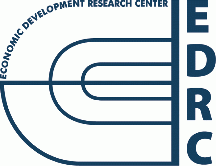 Logo of Economic Development and Research Center (Armenia)